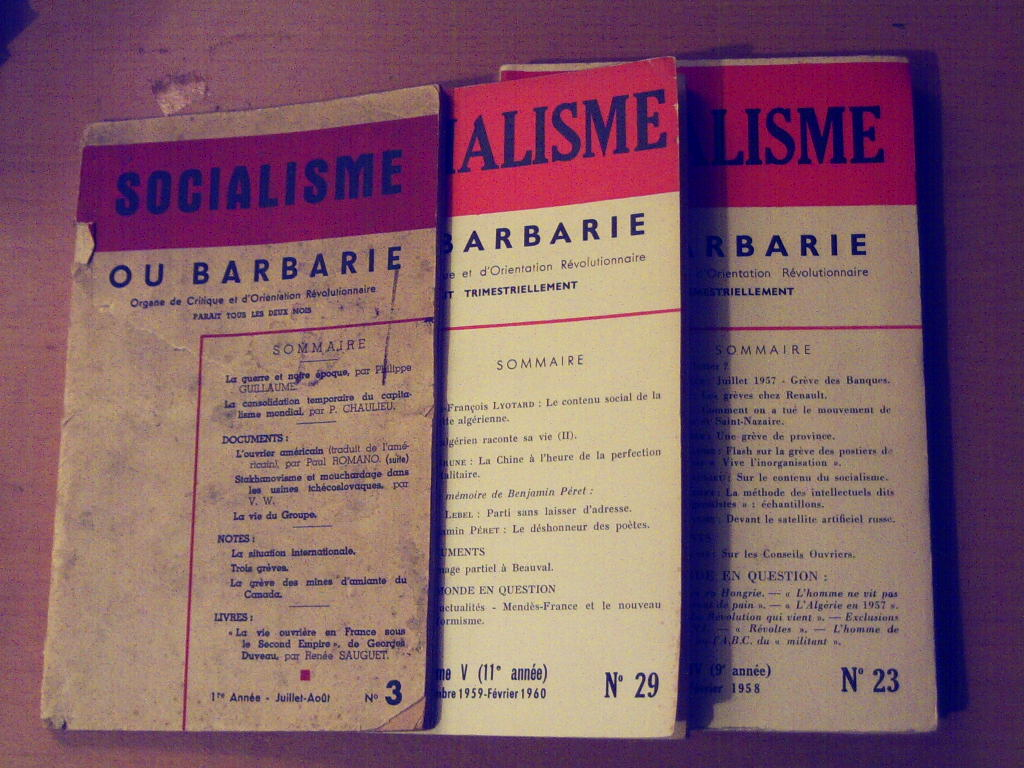 foto of some copies of the journal "Socialisme ou Barbarie"/Foto einiger Ausgaben der Zeitschrift "Socialisme ou Barbarie"